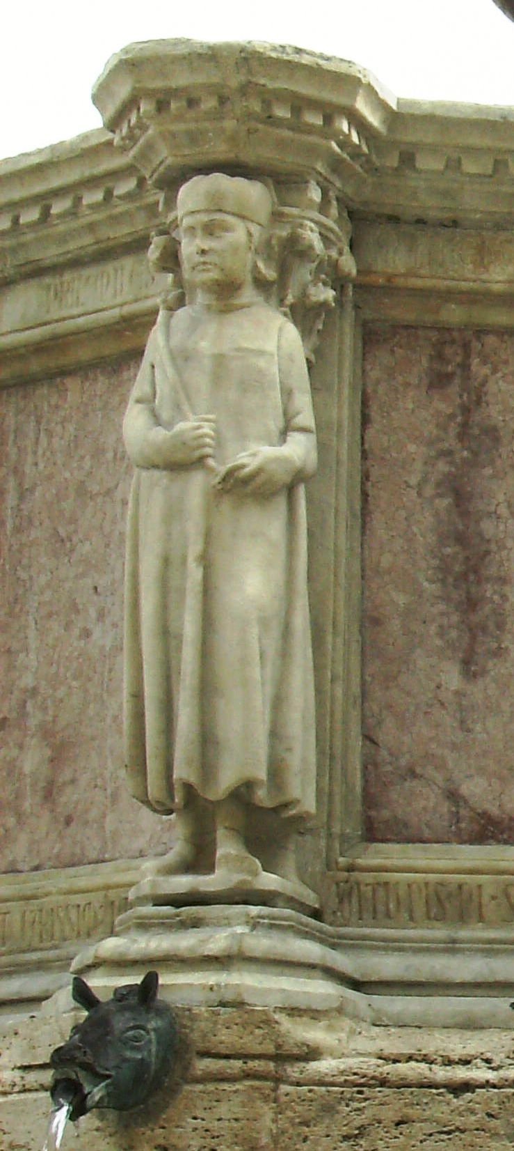 fontana Maggiore Matteo da Correggio